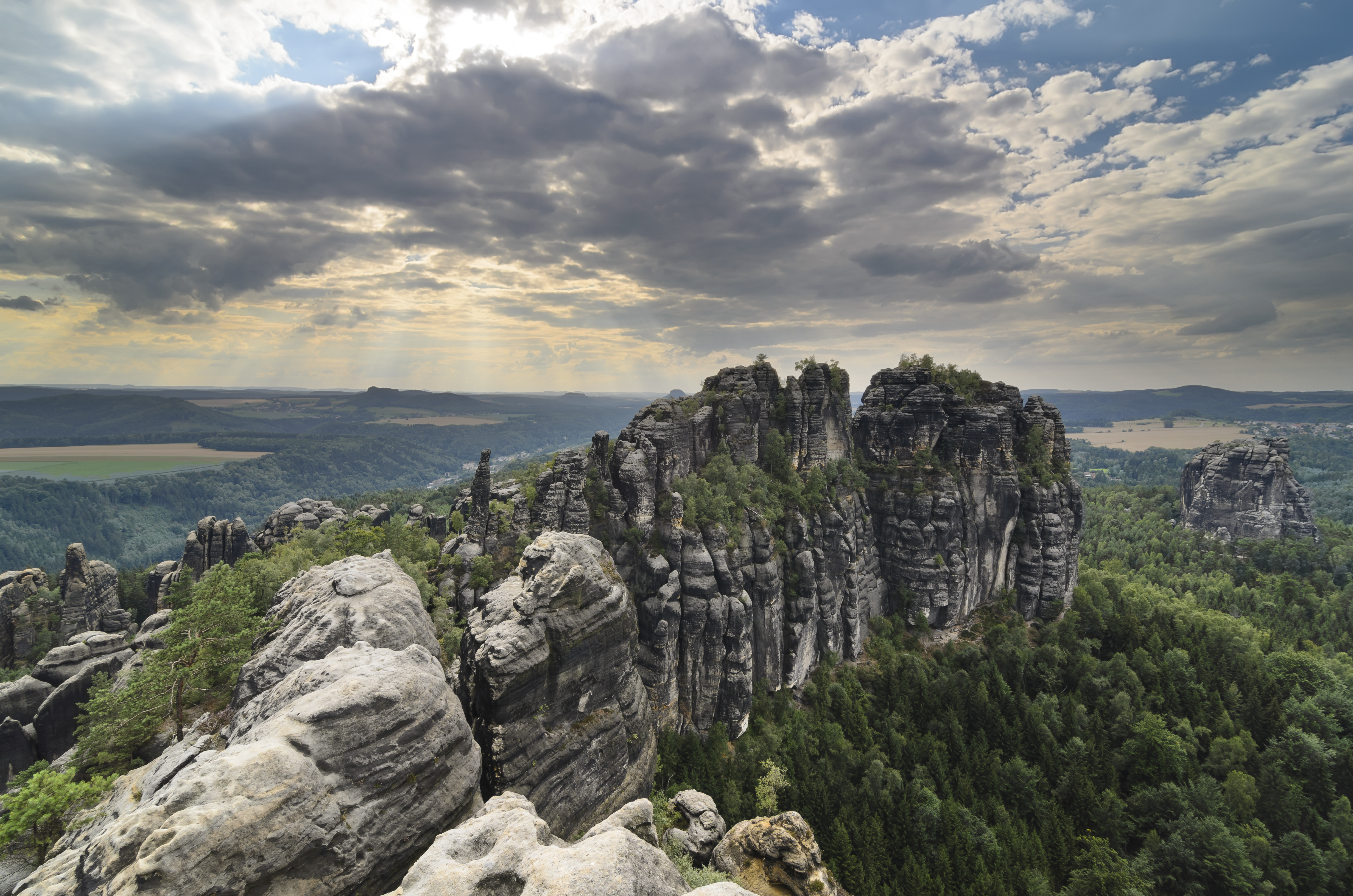 Sunset at Schrammsteine, Saxon Switzerland, Germany